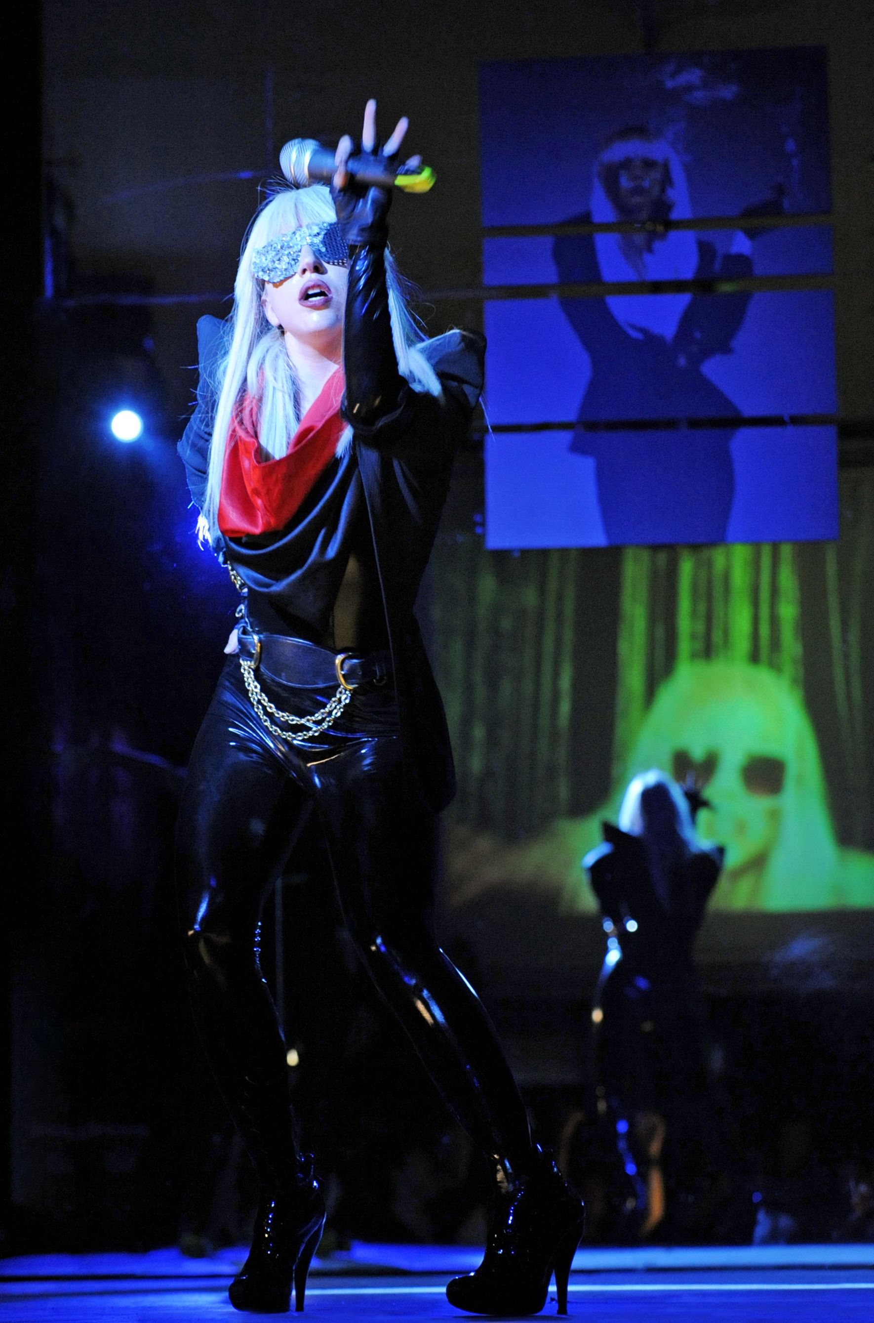 Lady Gaga performing "Just Dance" in Time Supper Club (Montreal, Canada) during the Formula 1 Grand Prix weekend.